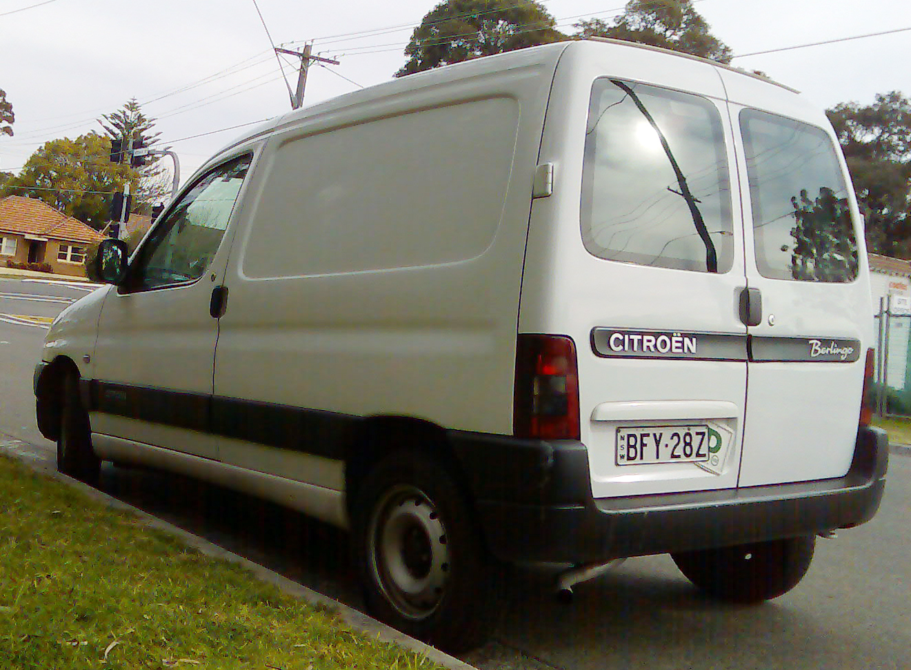 1999 Citroën Berlingo (M59) van. Photographed in Gymea, New South Wales, Australia.